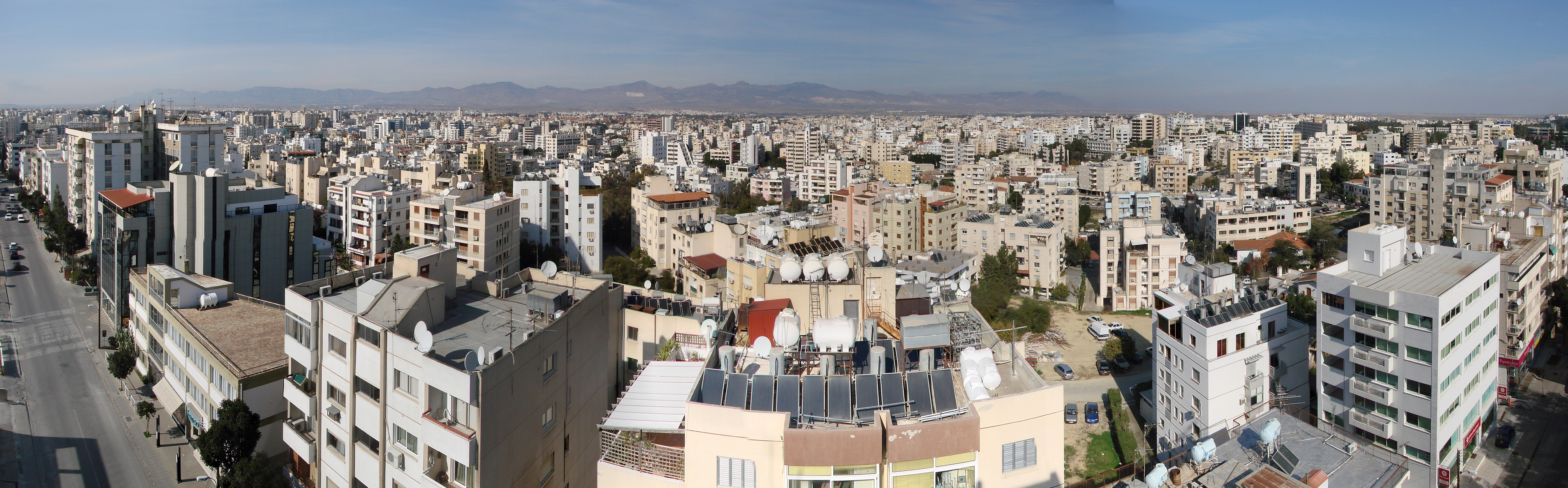 A panoramic view of Nicosia, Cyprus, lying in the Mesaoria plain, with the Pentadactylos mountain range in the background. This view of Nicosia was taken from an apartment building on Kenedy Avenue.